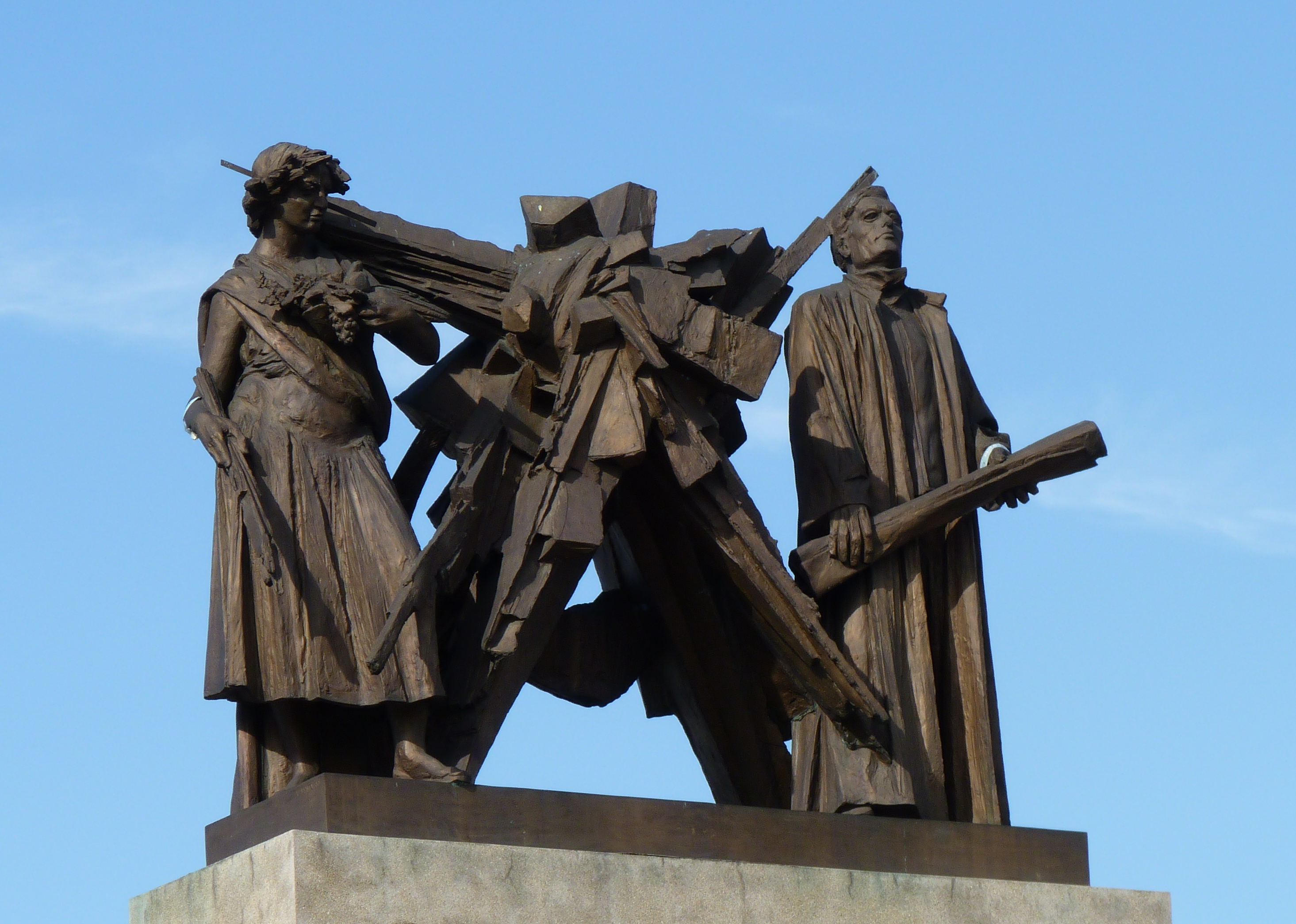 "Nový věk" statue near The Brno Exhibition Grounds, Czech Republic